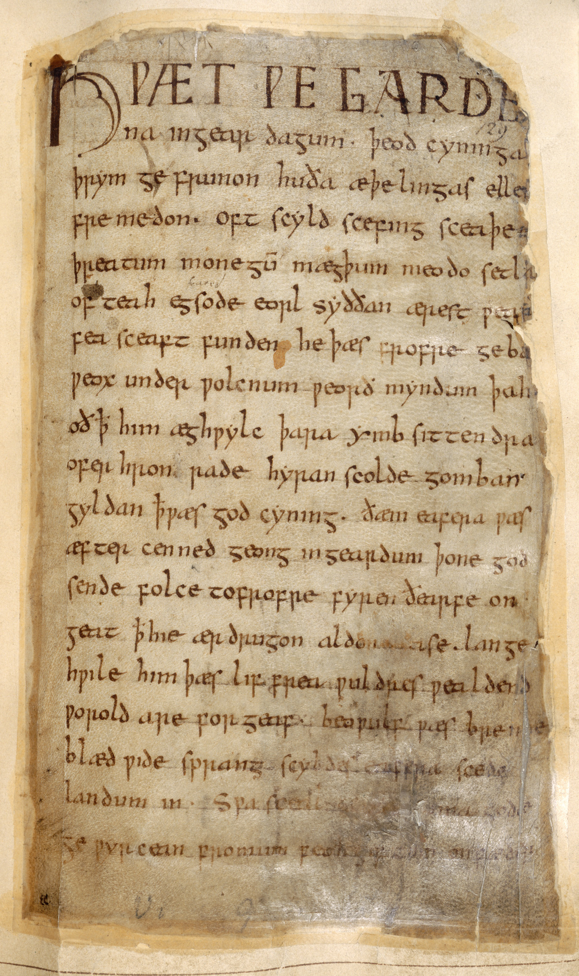 The beginning of Beowulf